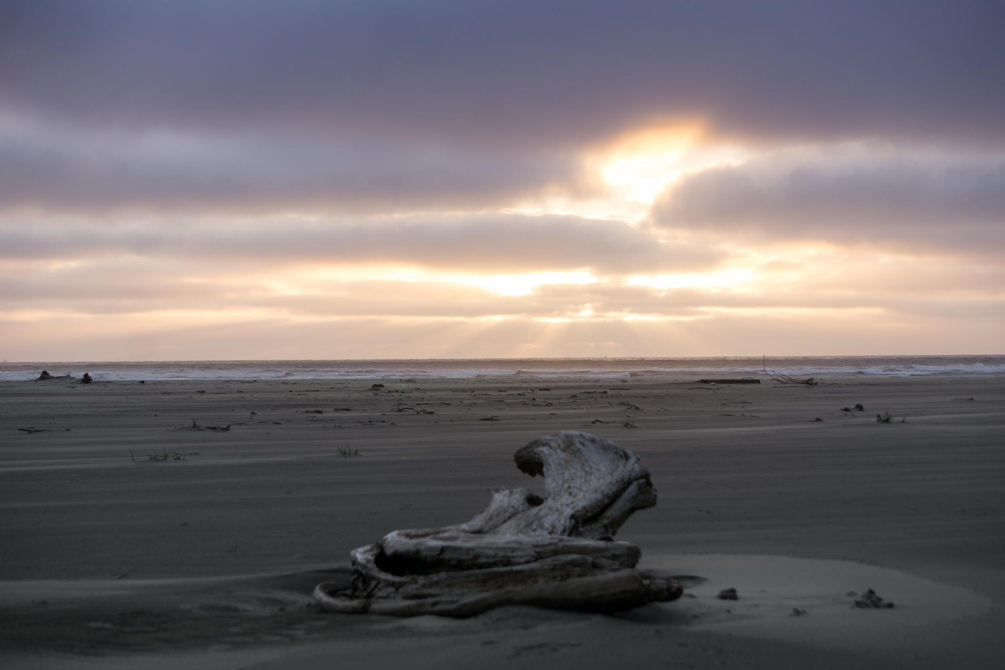 Grayland Beach State Park